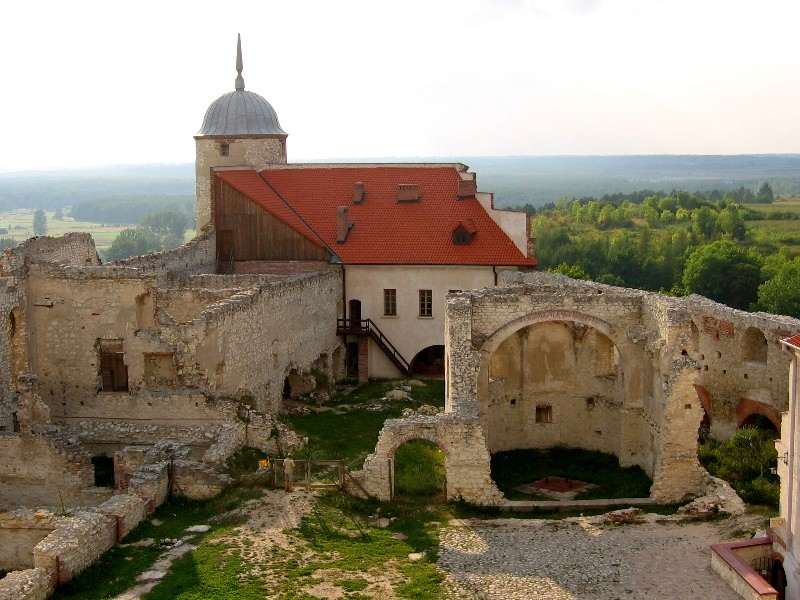 The ruins of a castle in Janowiec, Poland.